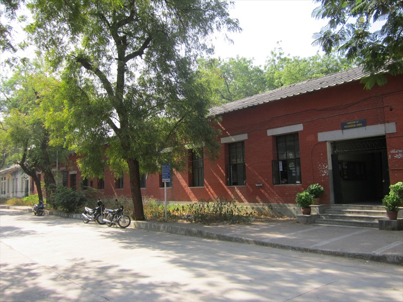 LDCE Building View